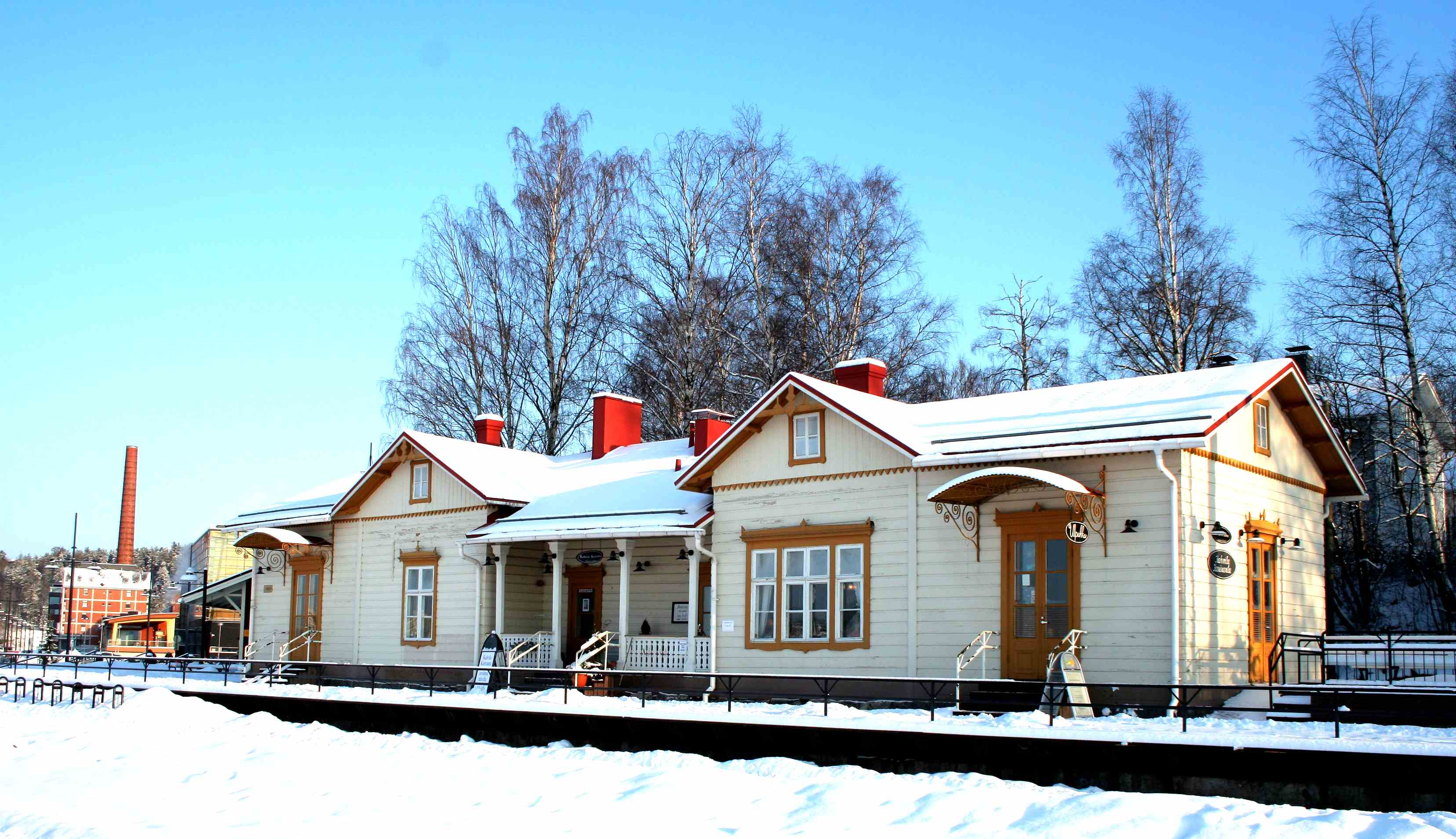 Vesijarvi (old) railway station in Lahti, Finland